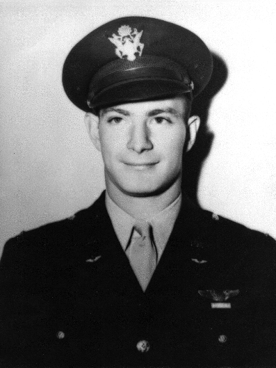 D.M. Smith, mathematician and longtime professor at the Georgia Institute of Technology.